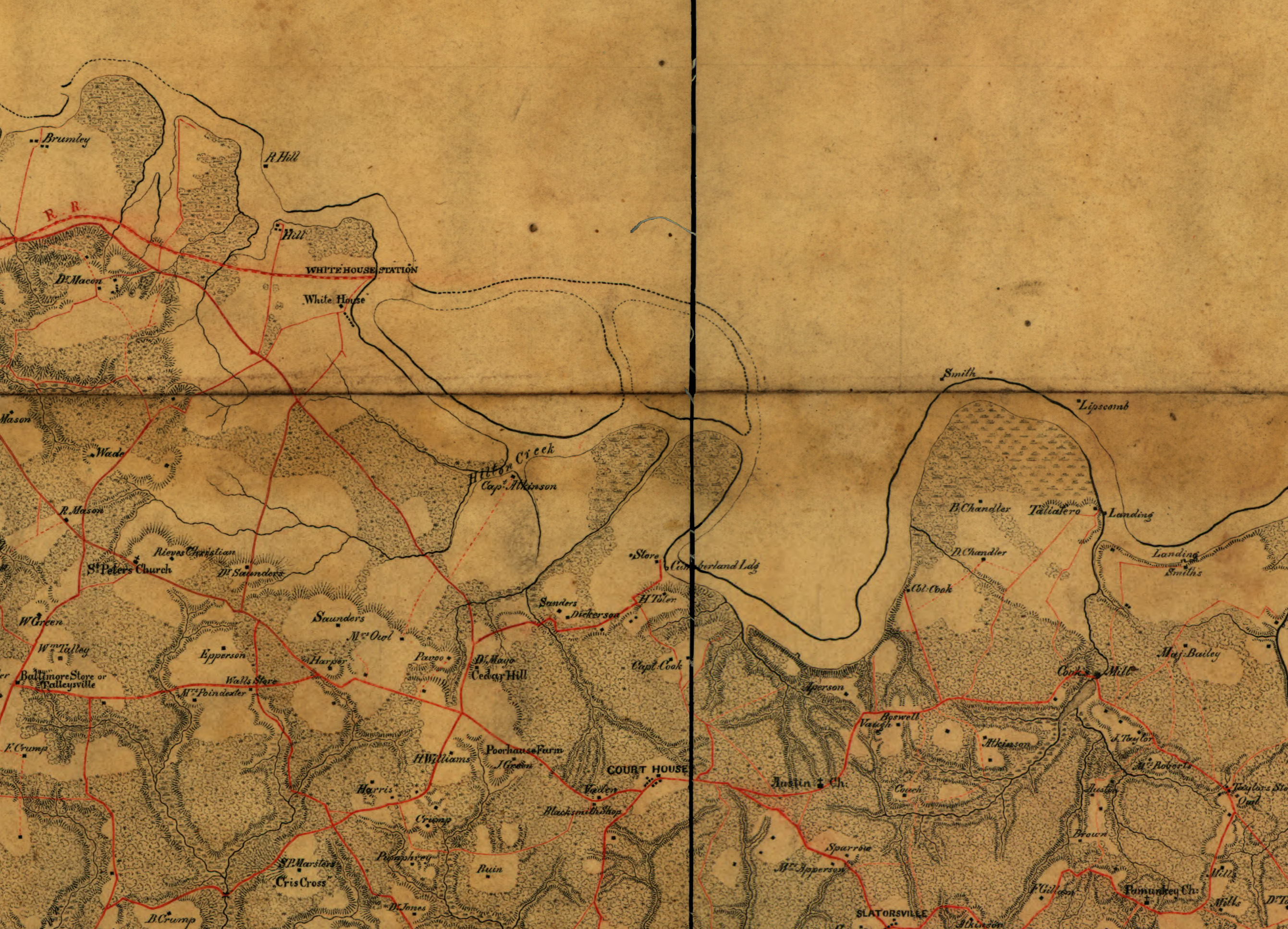 This crop of a 1863 Map of New Kent, Charles City, James City and York Counties shows the location of the White House that was built prior to 1700, on the White House Plantation. It was created by the Department of Northern Virginia’s Army, under the Confederate States of America during the Civil War.